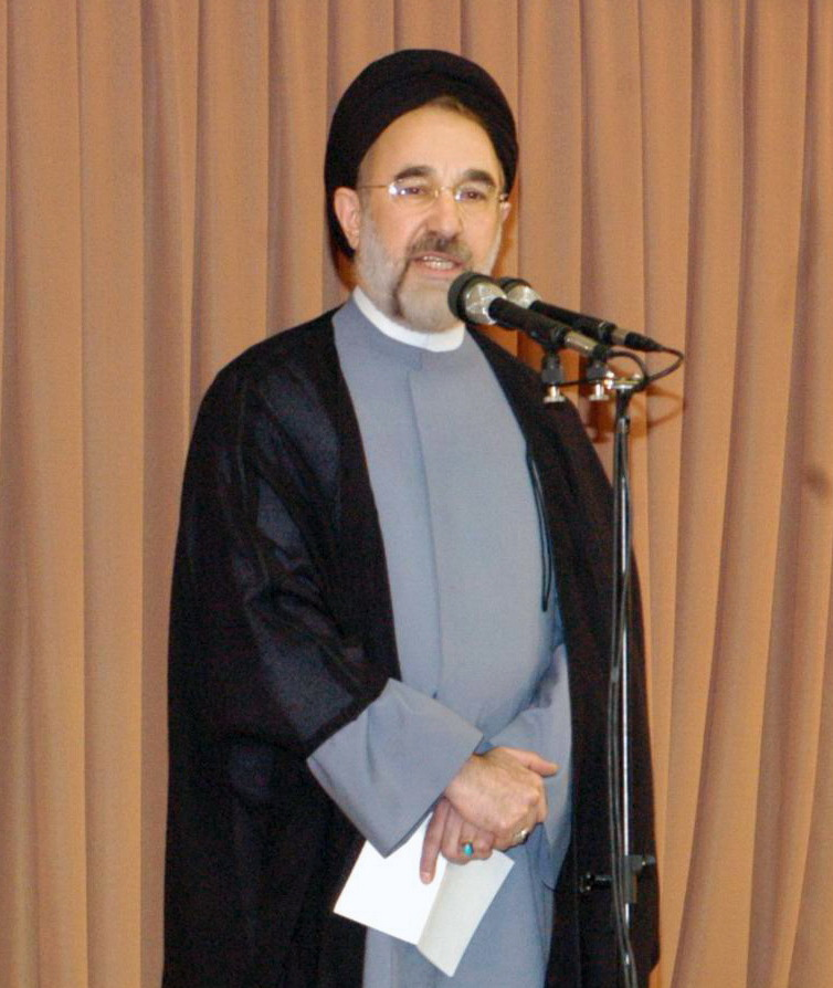 Authorities Visitation with Supreme Leader of Iran, Ali Khamenei-October 27, 2004 (Cropped)